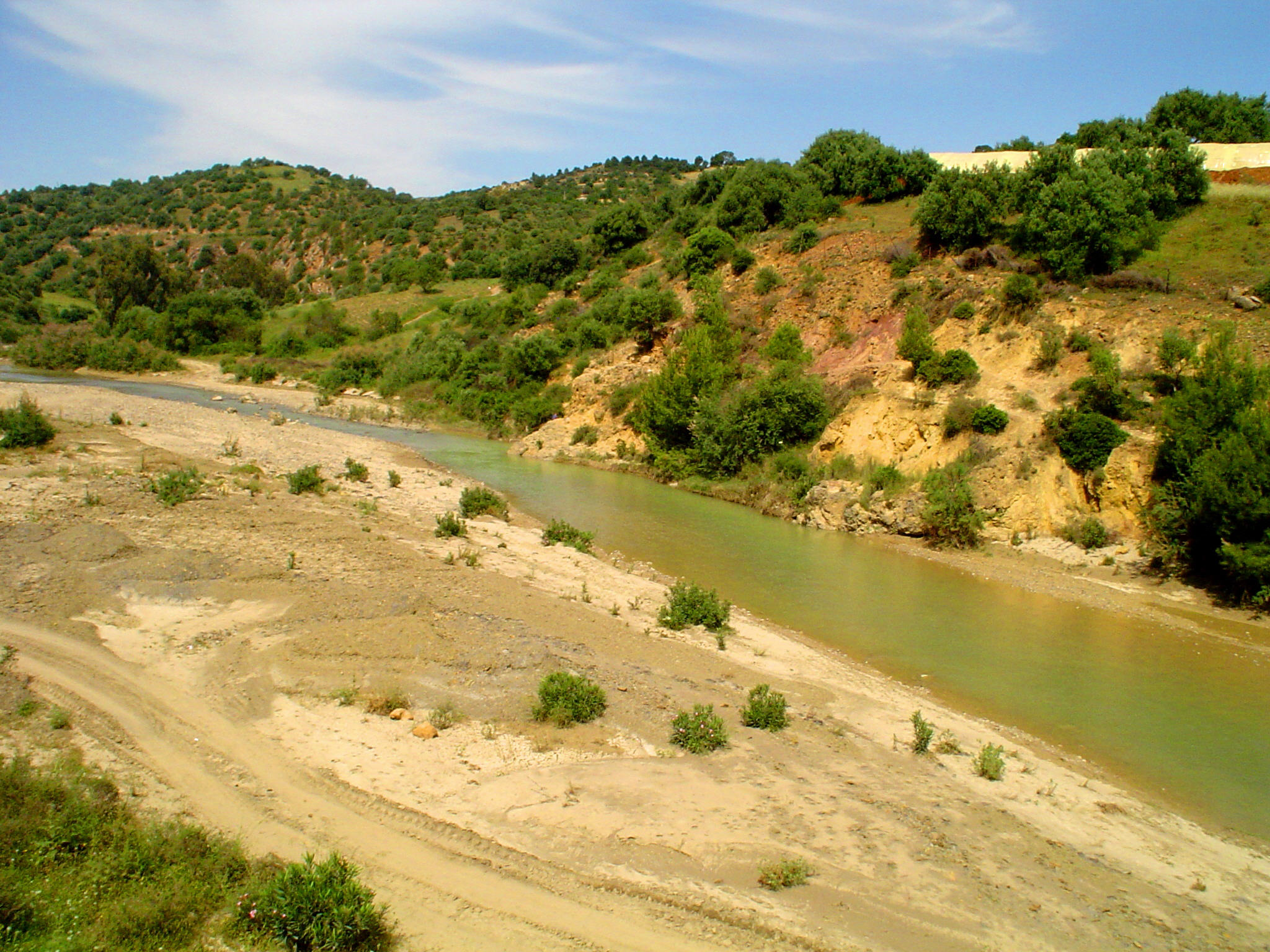 Tablat - Oued Isser واد يسر - تابلاط